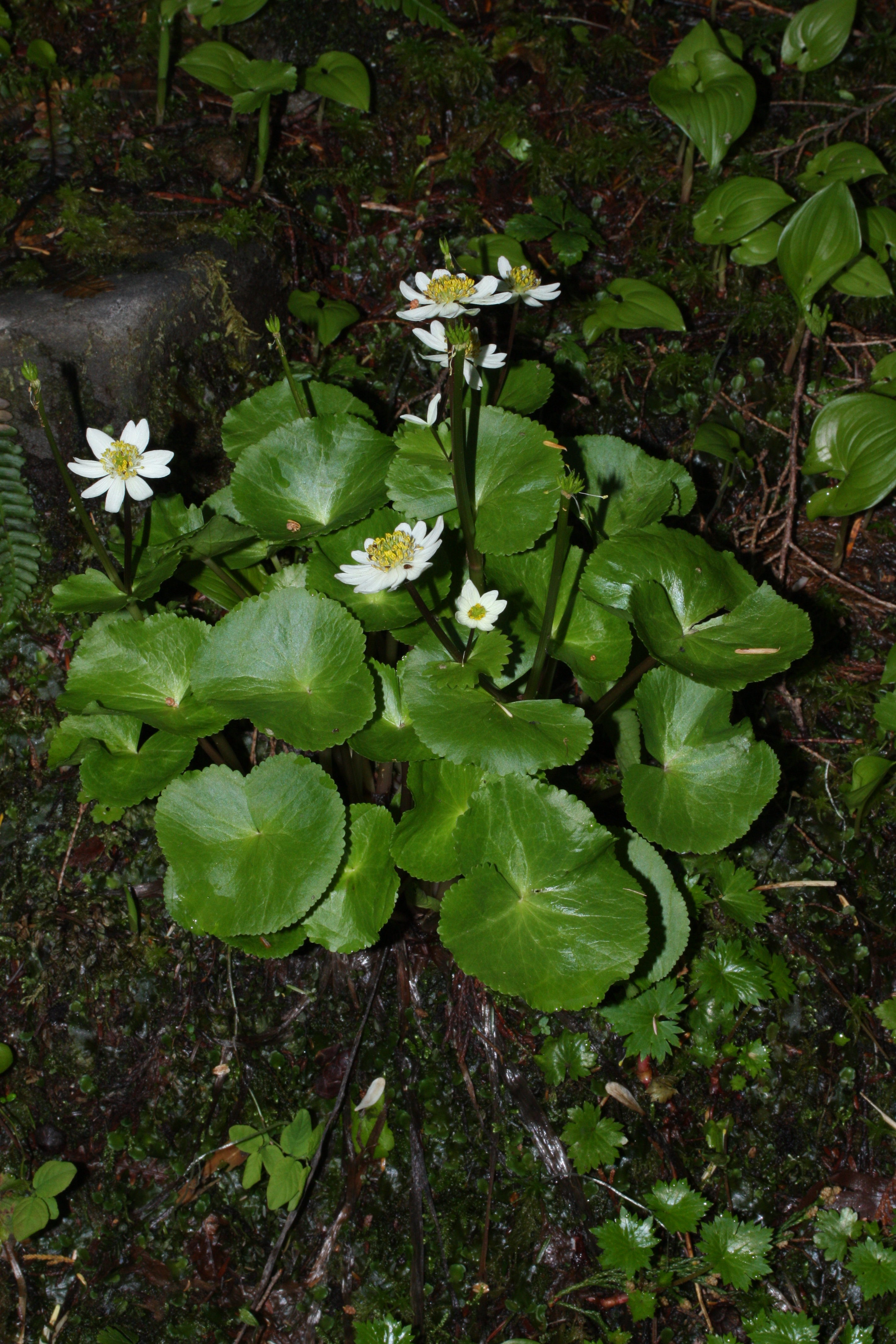 White Marshmarigold, Twinflowered Marshmarigold, Broadleaved Marshmarigold